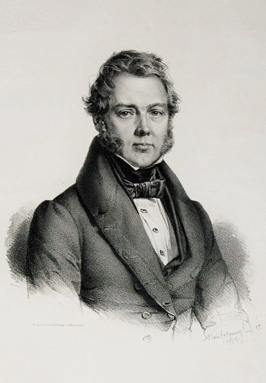 Hieronymus von Bayer (1792-1876) Jurist, Bayer. Landtagsabgeodneter